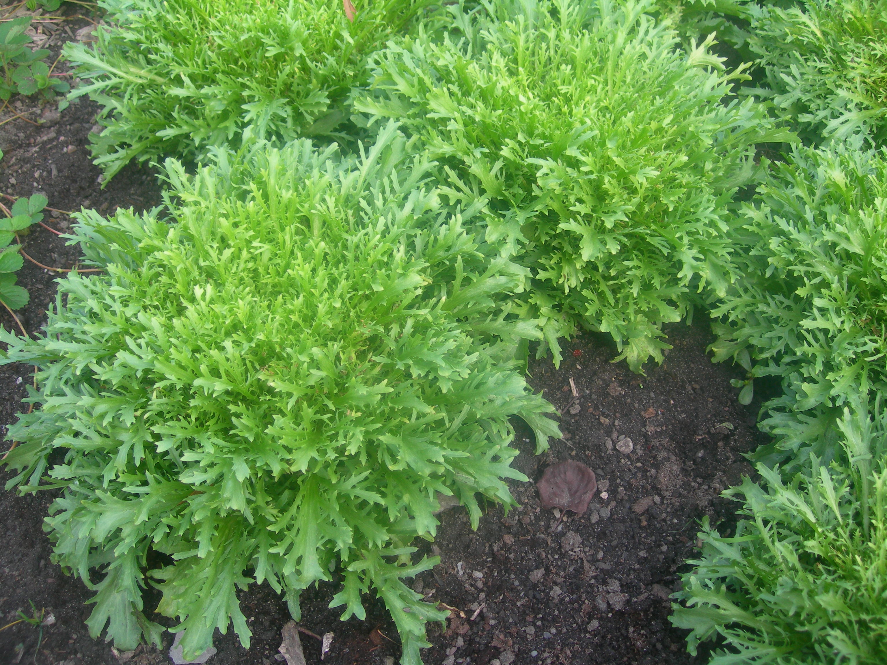 Curly endive